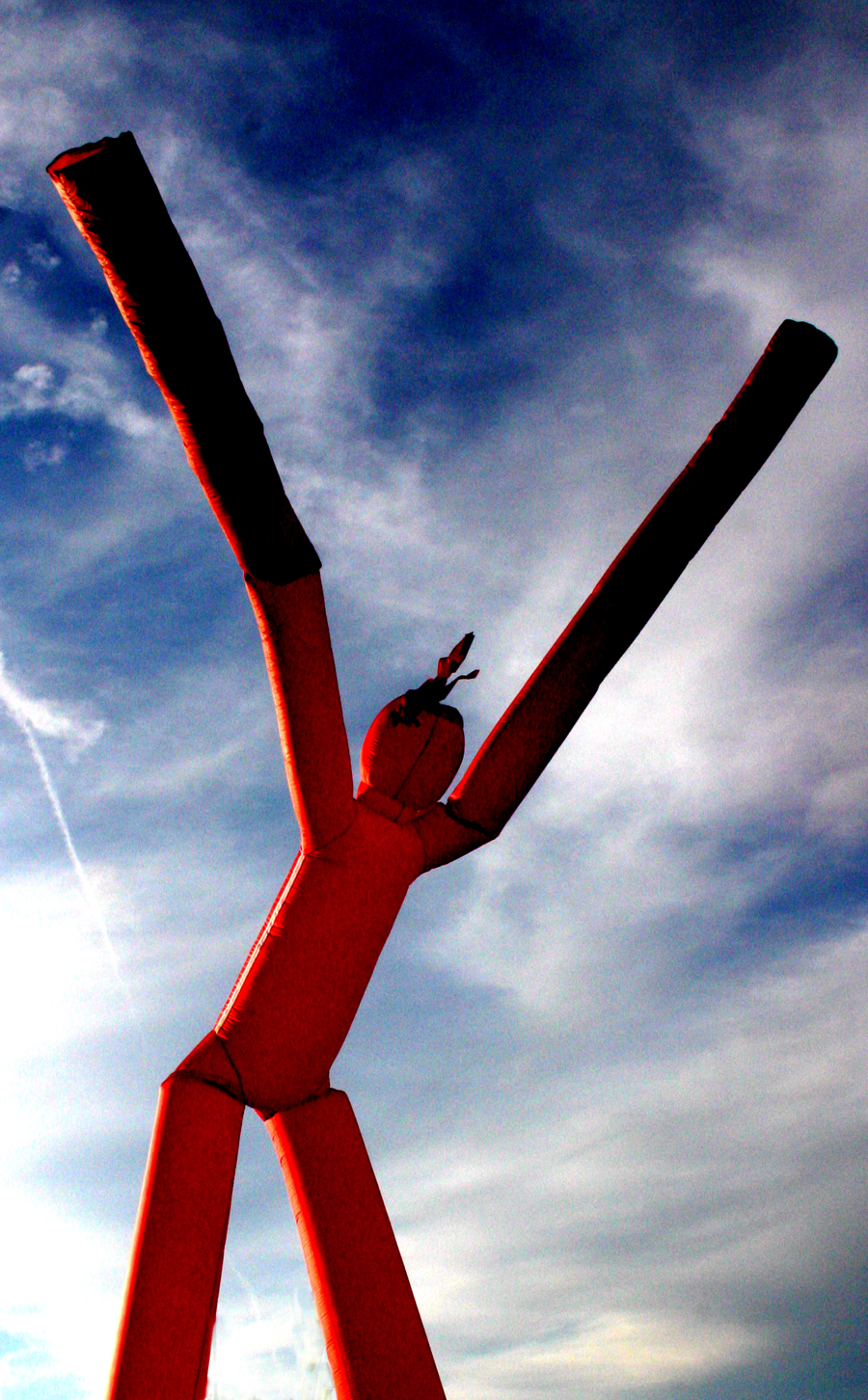 Inflatable man on the Dock Road in Liverpool, England